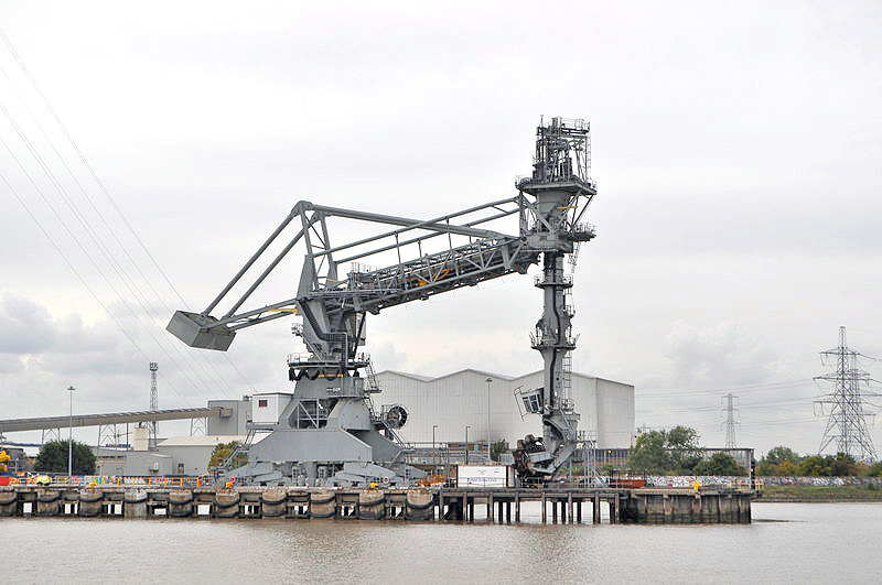 Unloader on a Jetty, near to Greenhithe, Kent, Great Britain. Looks to be used for coal or some other bulk goods, maybe used to power the chemical works.